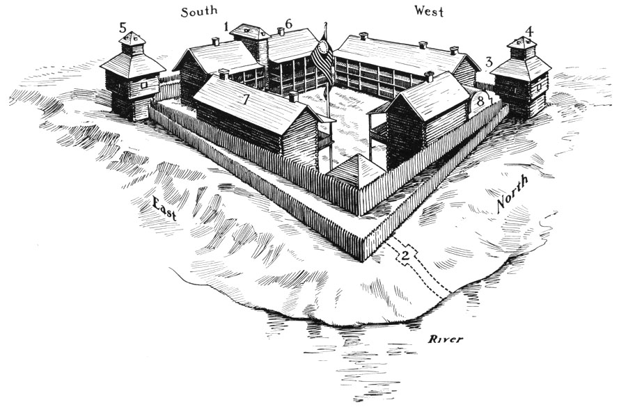 Bird's-eye view of Fort Dearborn, Chicago, Illinois. 1—Main entrance of the fort; 2—location of the "sallyport", and underground passage running to the river; 3—gateway to the west; 4—blockhouse at the northwest corner of the fort; 5—blockhouse at the southeast corner of the fort; 6—officers' quarters; 7—barracks; 8—magazine.